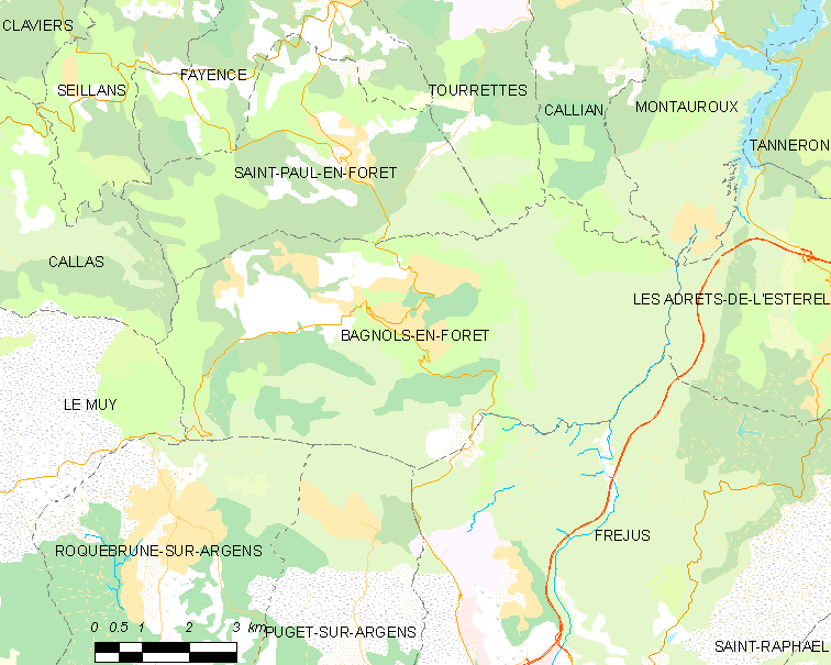 Map of French municipality Bagnols-en-Forêt